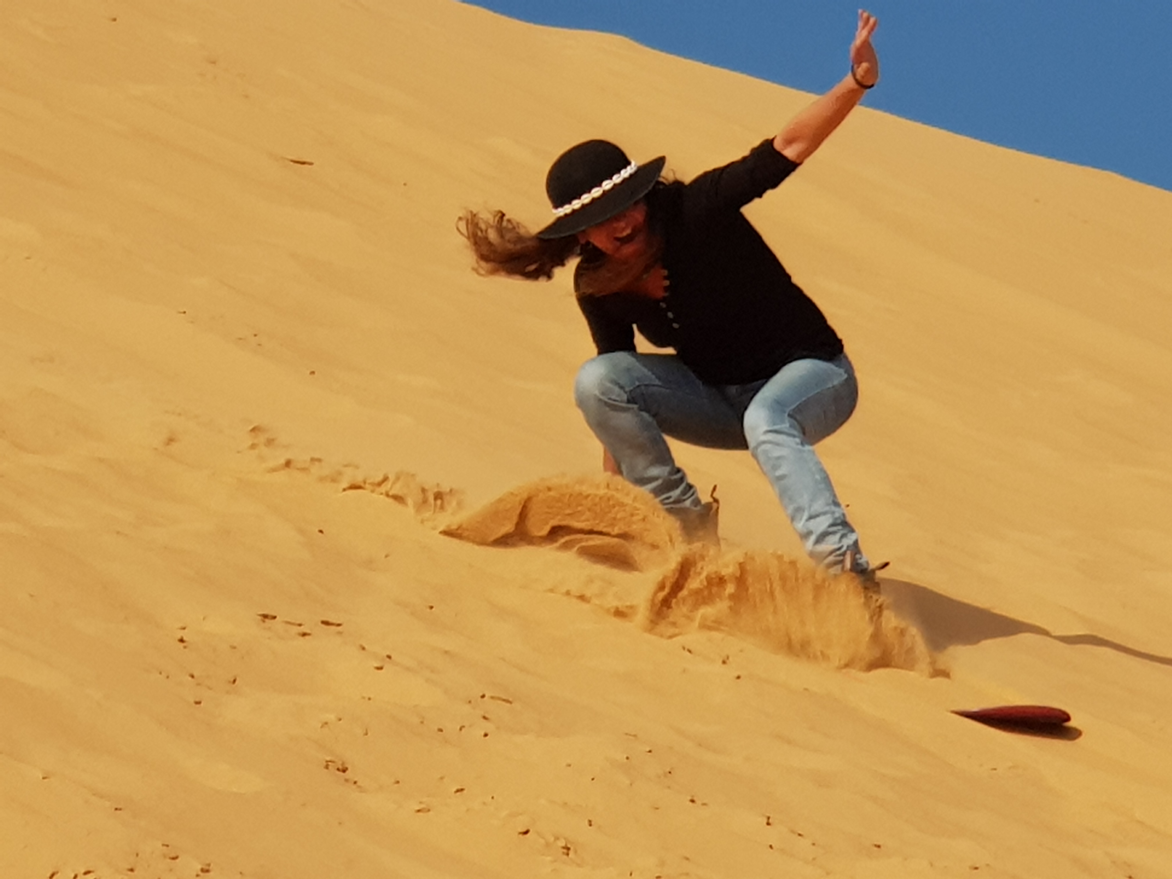 Sandboarding in Israel at DrorBamidbar